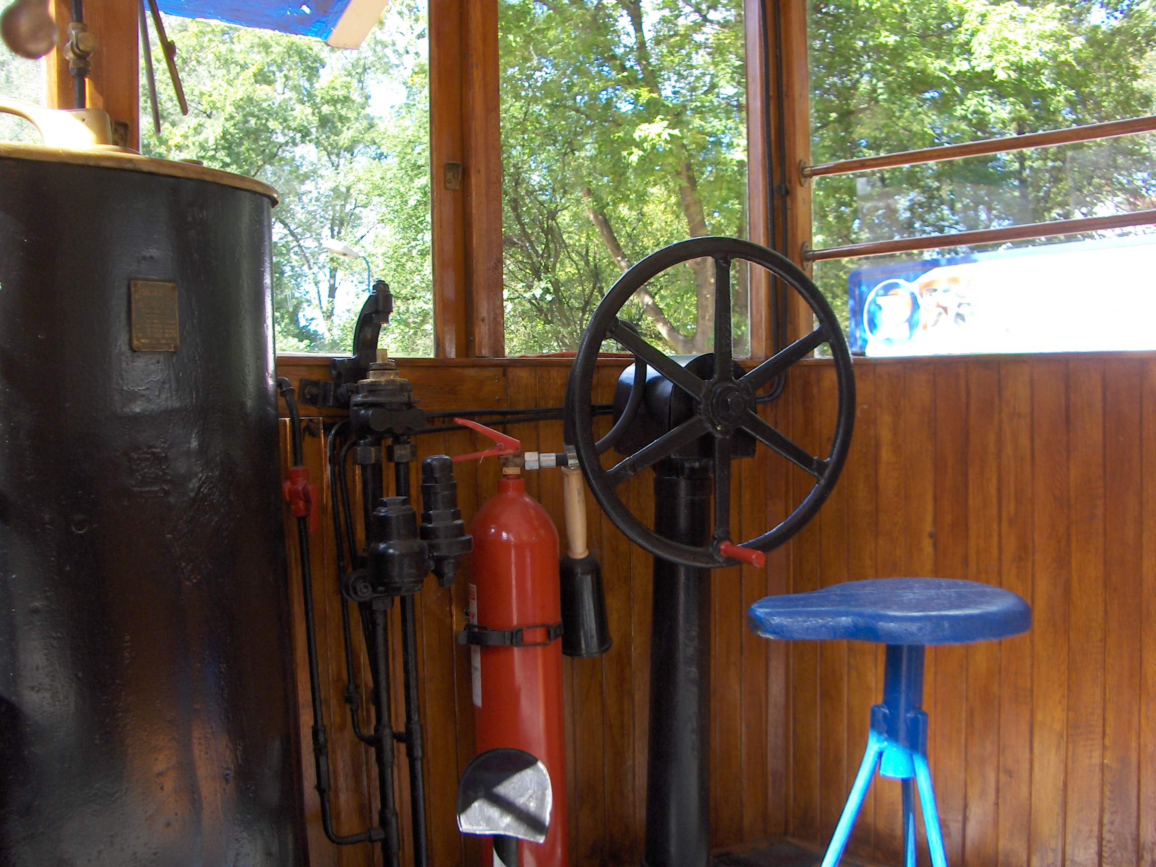 Inside of polish electric multiple unit EN80.